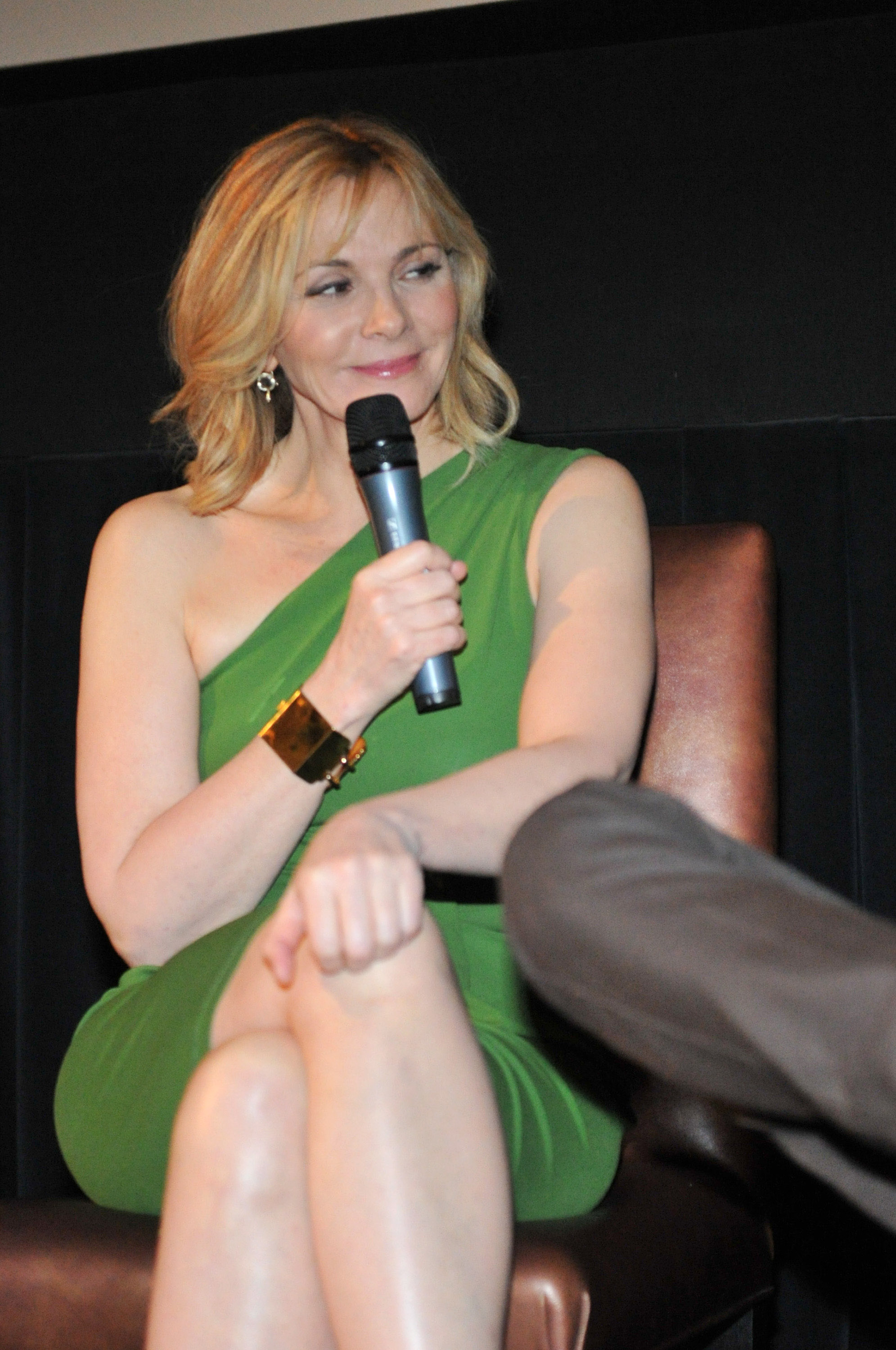 Richard Crouse hosted an in-conversation and Q&A with Kim Cattrall, Dustin Ingram & Keith Bearden after the Canadian premiere of "Meet Monica Velour", hosted by the Canadian Film Centre. To learn more about CFC, please visit: Photo by Sonia Recchia